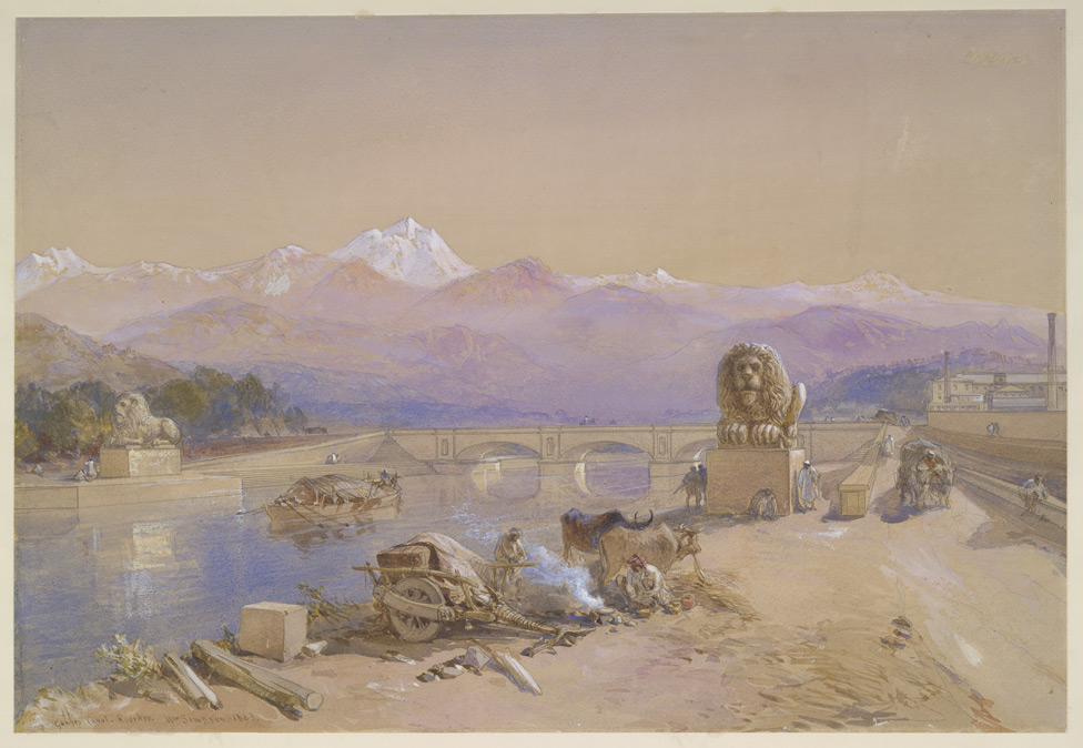 Watercolor titled, "The Ganges Canal, Roorkee, Saharanpur District (U.P.)." The canal was the brainchild of Sir Proby Cautley; construction began in 1840, and it was opened by Governor-General Lord Dalhousie in April 1854 Uploaded by Fowler&fowler«Talk» 22:38, 15 November 2008 (UTC)